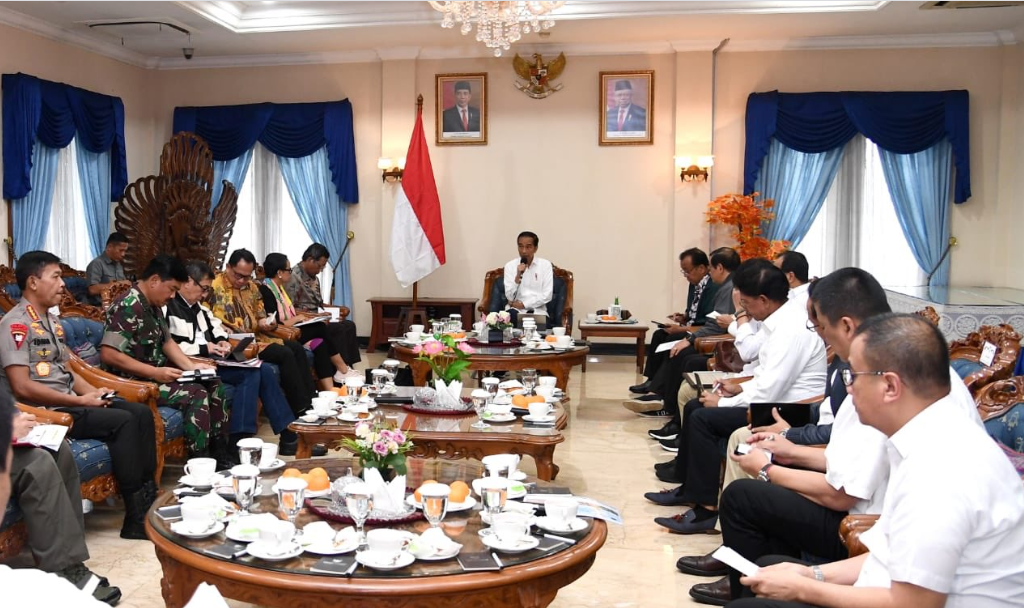 Indonesian President Joko Widodo held a high level meeting with ministers at Halim Perdanakusuma Airport in Jakarta to discuss on the evacuation process of hundreds of Indonesians trapped in Wuhan, Hubei Province. Wuhan was the epicentre of a deadly pneumonia outbrea with thousands dead and infected. In response, the Chinese Government ordered a city-wide quarantine in Wuhan, effective by 23 January.